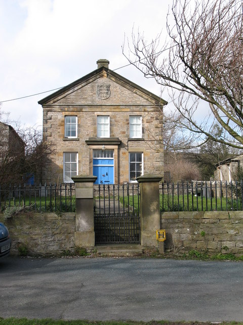 Friends Meeting House, Carperby The Quaker movement has always been strong in the Yorkshire Dales, and they built a rather fine meeting house in Carperby. Now converted into a house, but still with a graveyard in the front garden!